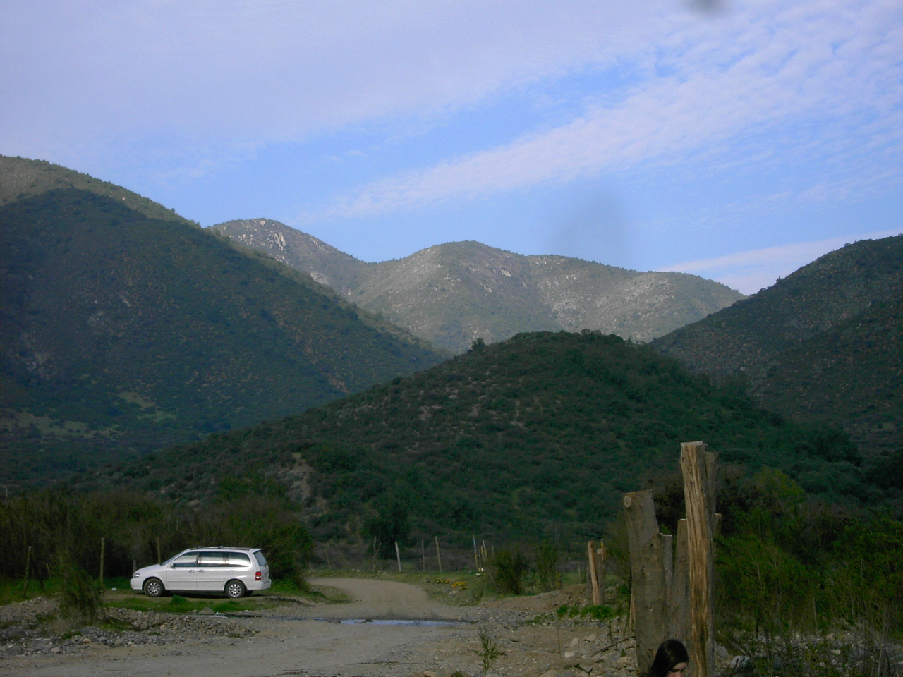 Ford of river Puangue at Alhué, Chile.